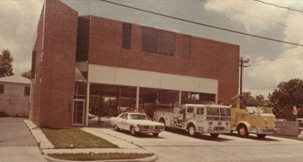 Houston Fire Department Station #20 in 1976